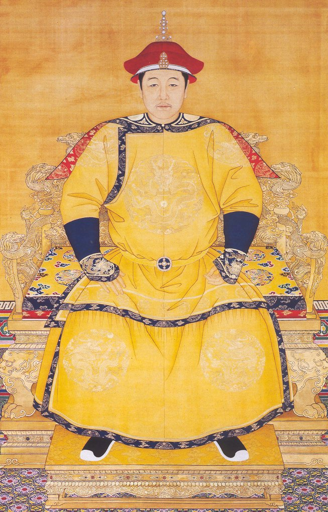 Qing Emperor Shunzhi